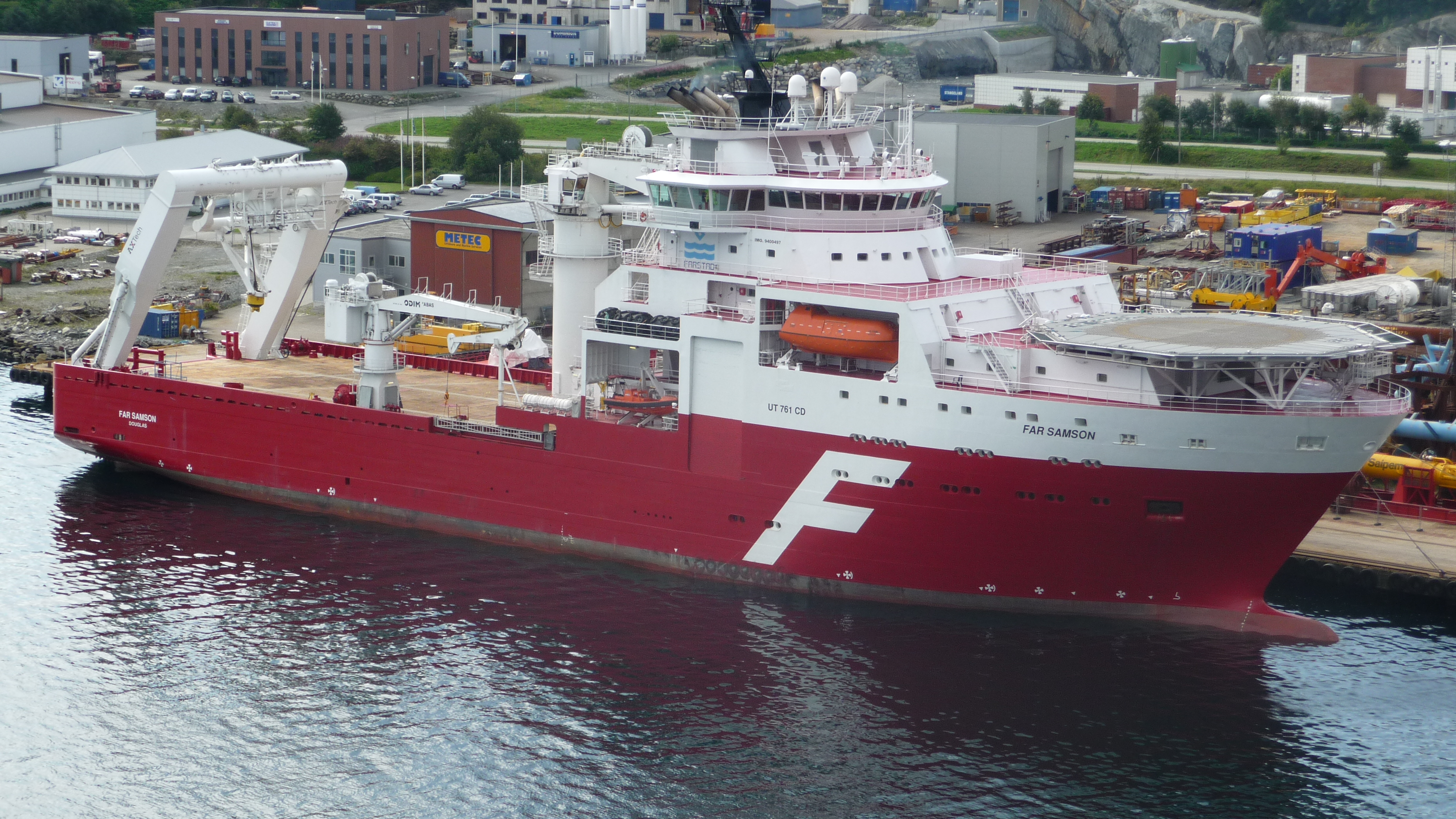 Far Samson alongside Mekjarvik quay